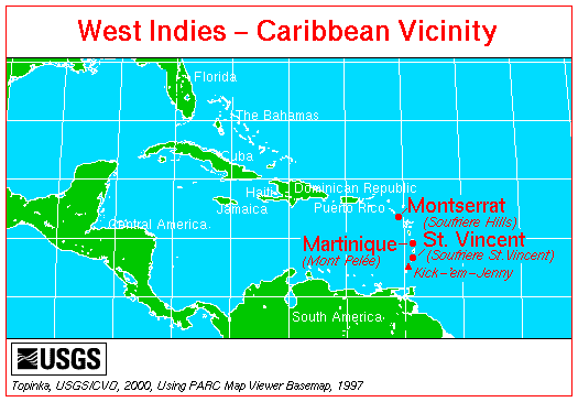 USGS map (Topinka, USGSICVO, 2000, Using PARC Map View Basemap, 1997)